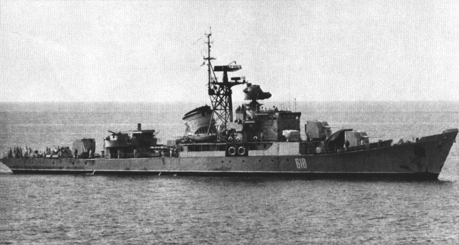 The Soviet Riga-class (Project 50, Gornostay) frigate SKR-61 underway.